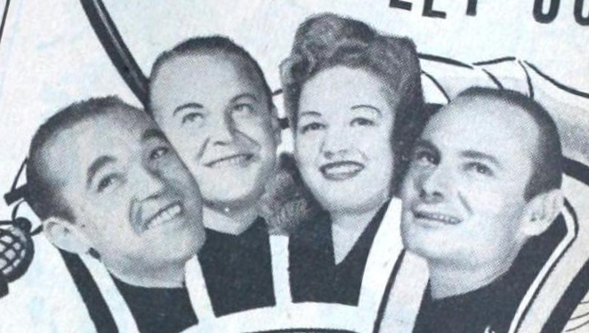 The Pied Pipers in ad in Billboard magazine